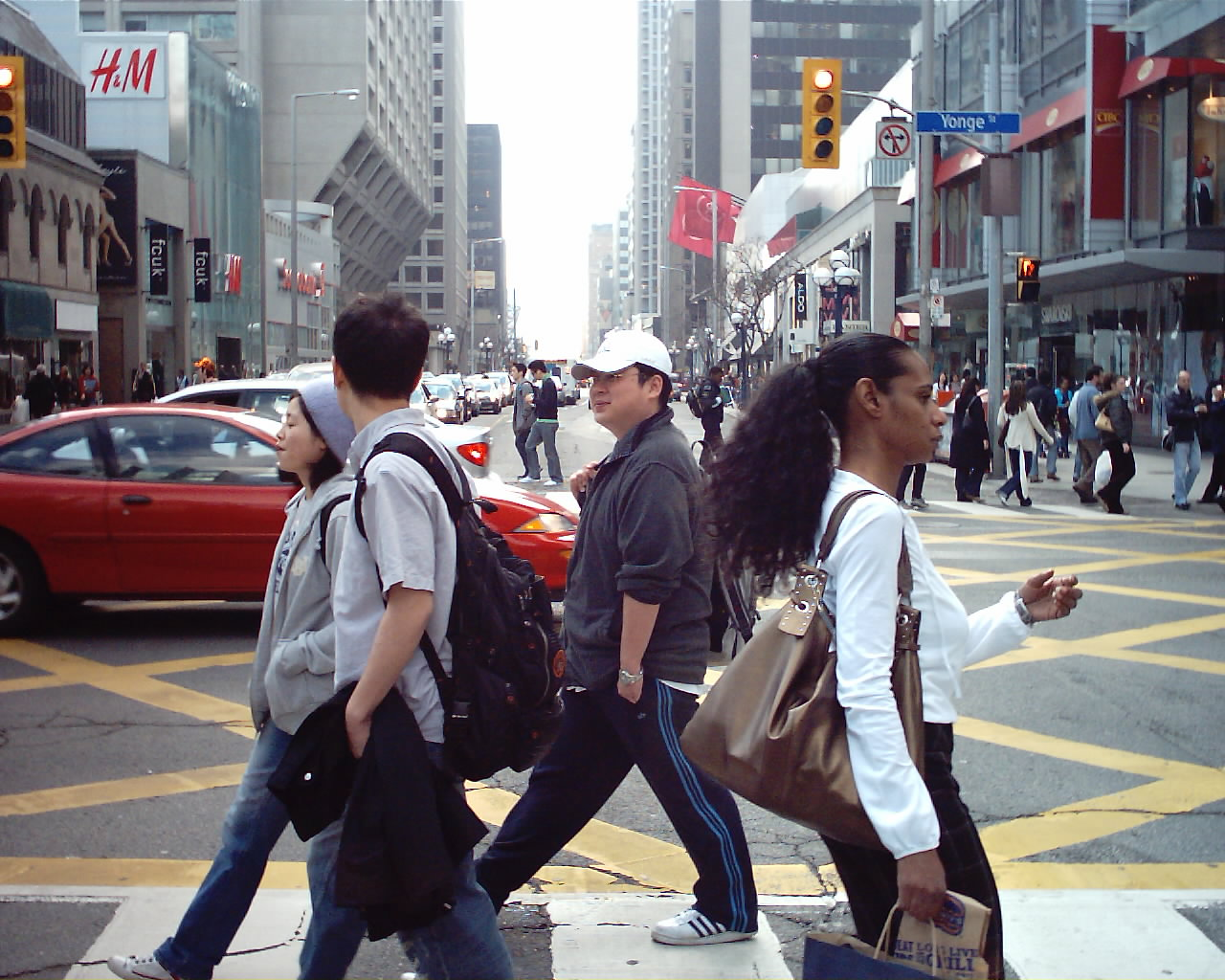 Pedestrians crossing the intersection at Yonge and Bloor Streets, with view of Bloor Street West looking west. Toronto, Canada.